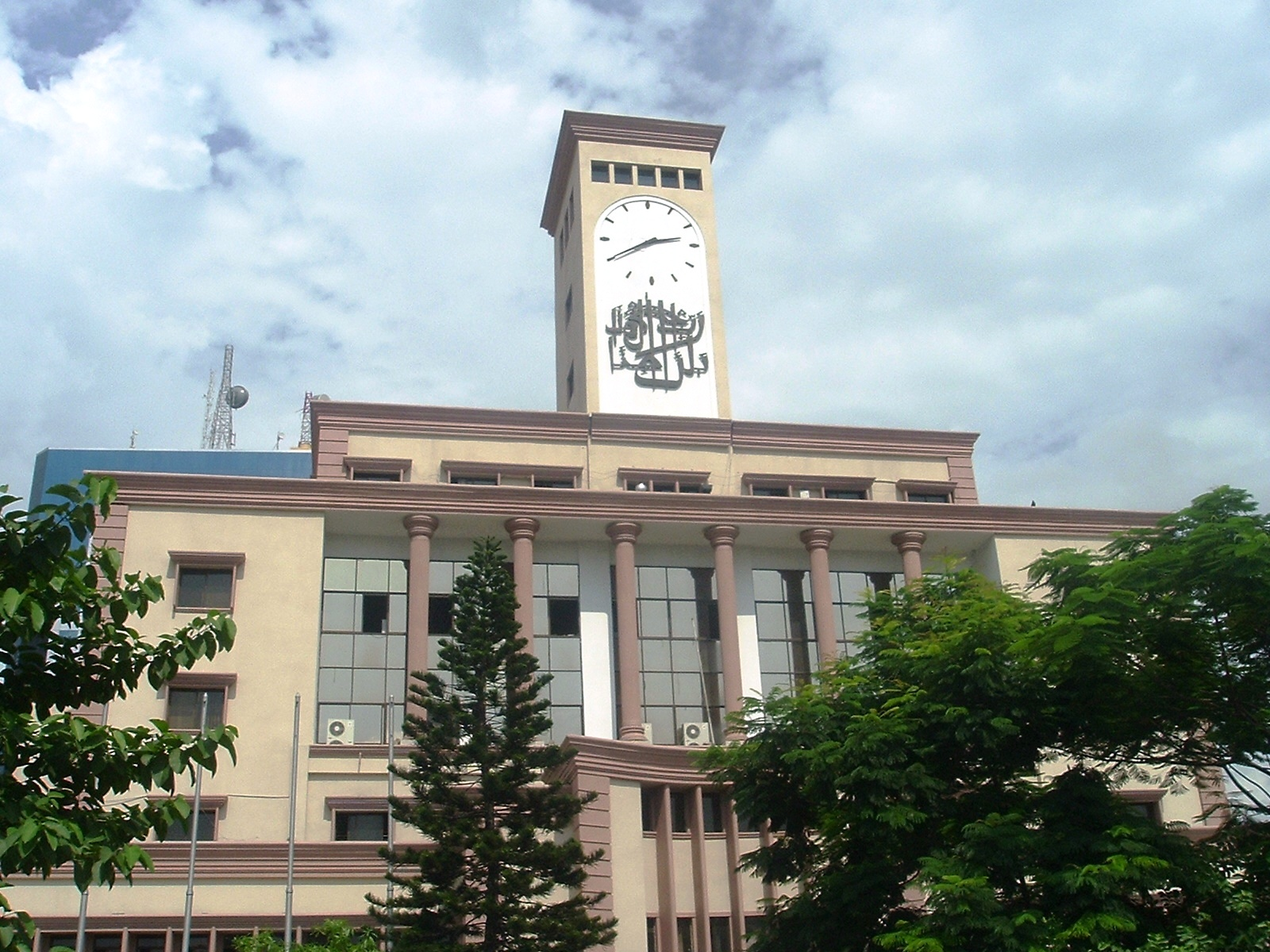 Main office building of Rajuk (Capital City development Authority) in Dhaka.